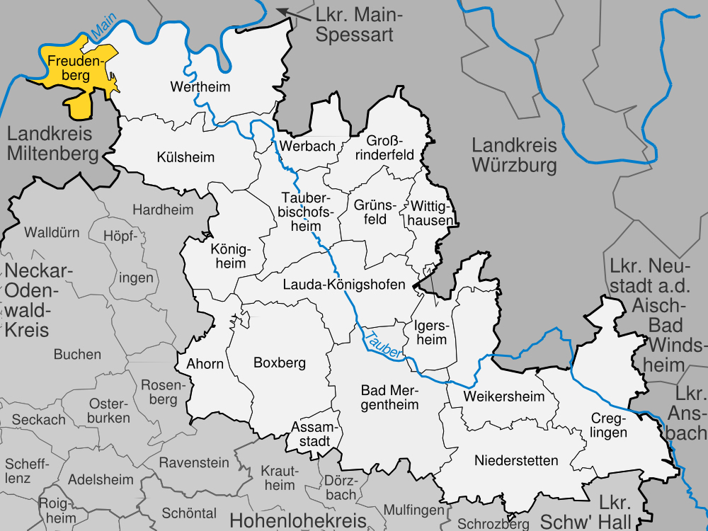 Position of Freudenberg within the Main-Tauber-Kreis, Baden-Württemberg, Germany